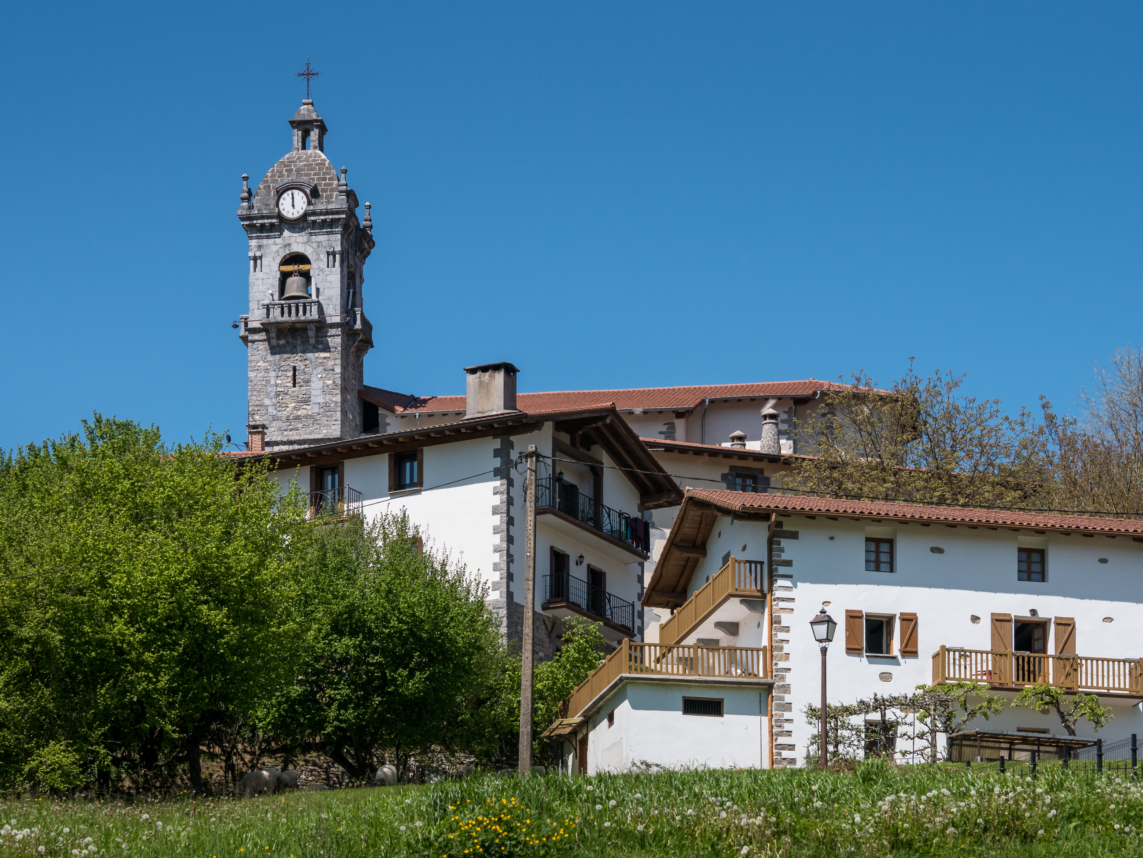 Church and houses of Areso, Navarre, Spain